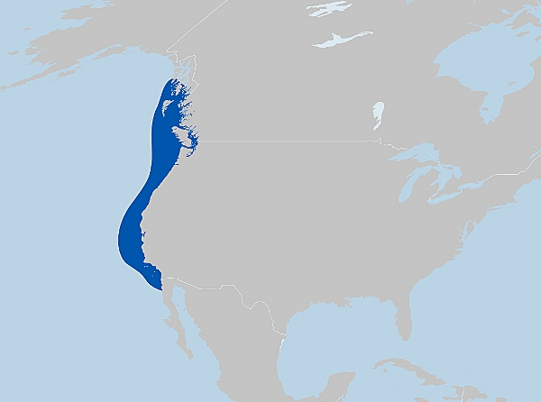 Distribution range of the blackeye goby (Rhinogobiops nicholsii)